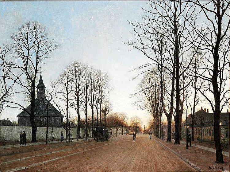 View of Frederiksberg Allé and Frederiksberg Church